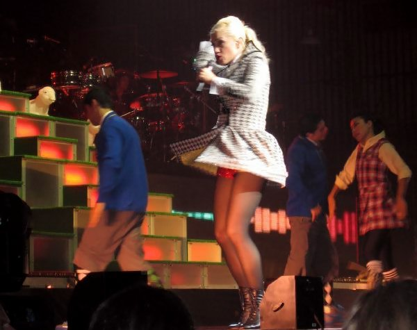 Gwen Stefani (right) performing "Wind It Up" at the Verizon Wireless Amphitheatre in Charlotte, North Carolina, United StatesIMG_5371